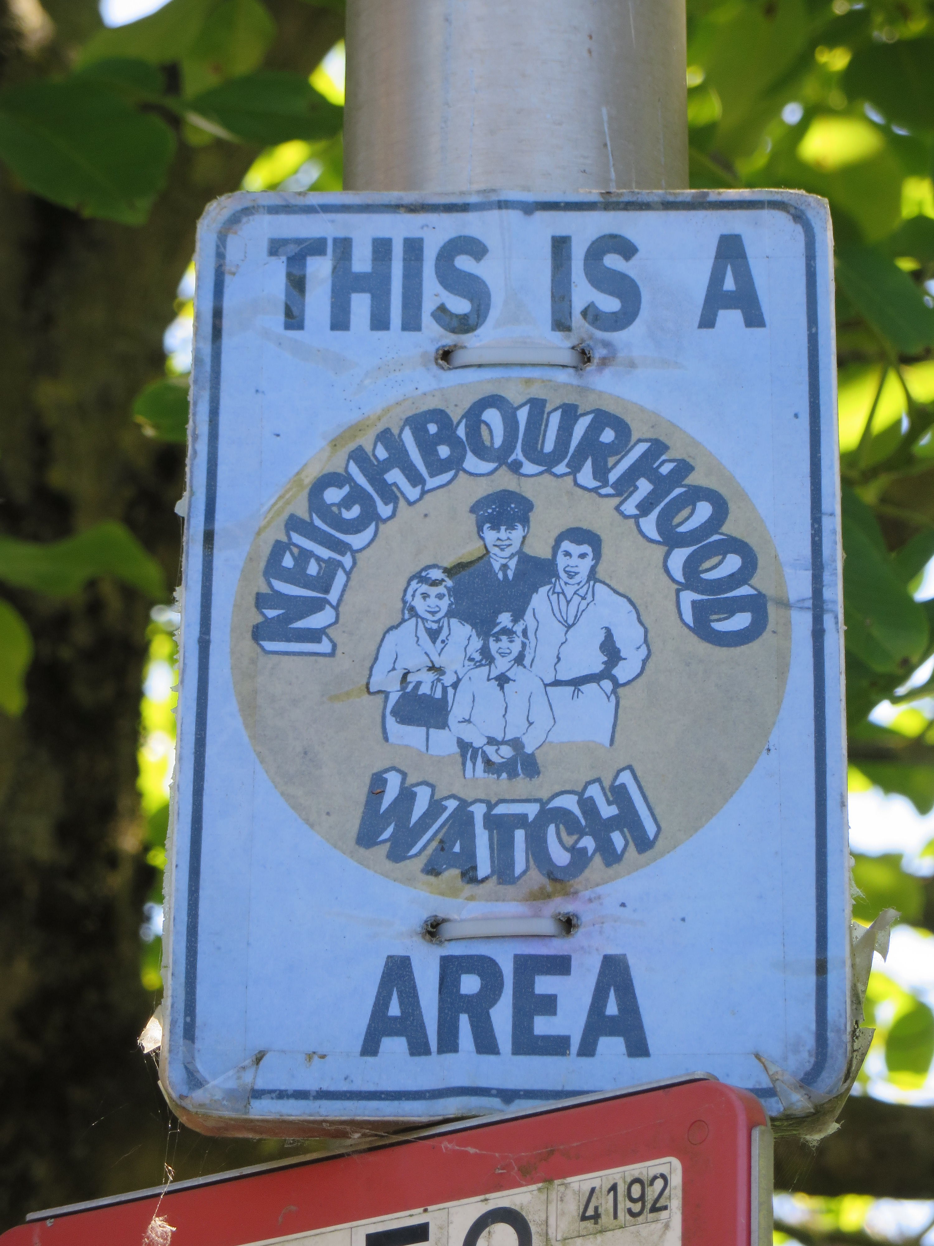 Sign This is a Neighbourhood Watch Area at a lamppost in Witten, GermanyEsperanto: Signo This is a Neighbourhood Watch Area (Tio estas najbaraĵgarddeĵorregiono) ĉe lummasto en Witten, Germanio